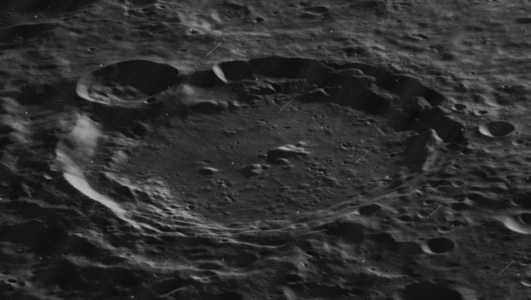 Oblique view of Fizeau crater, on the far side of the moon, facing west.